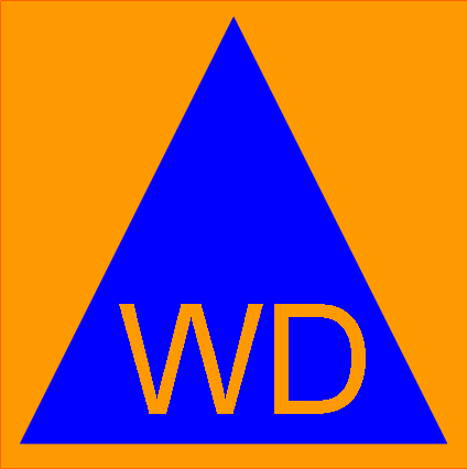 The logotype for the West-german authority Warndienst